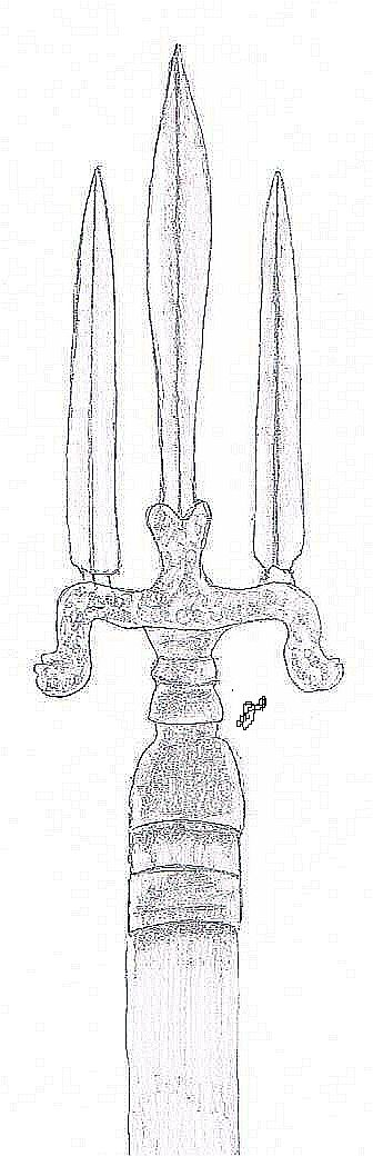 Trisula